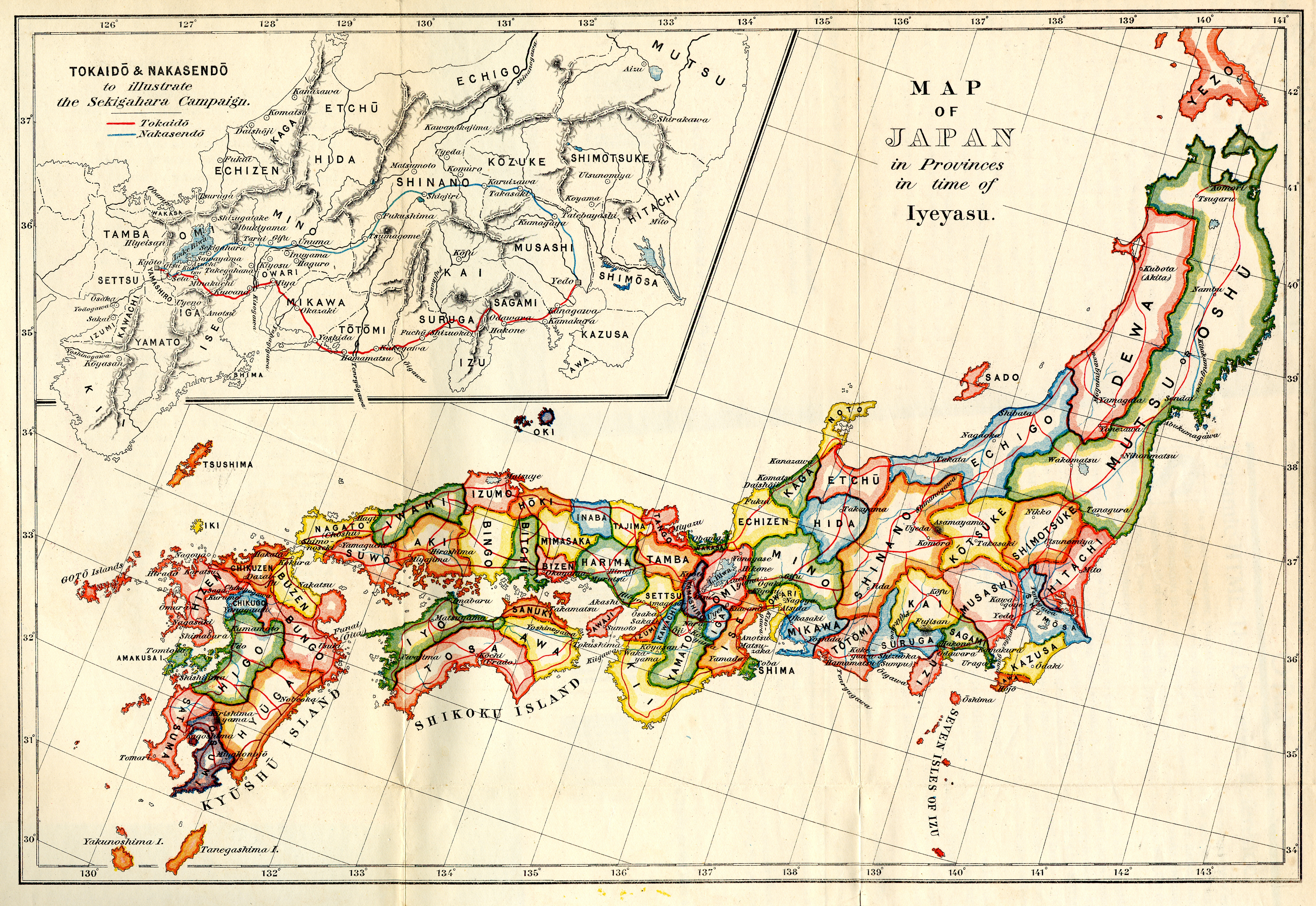 Japan in Provinces in the time of Tokugawa Ieyasu (1542-1651, note: Ieyasu lived from 1543 till 1616). Scan of plate facing page 2 of "A History of Japan during the century of early foreign intercourse (1542-1651)", by Murdoch and Yamagata.